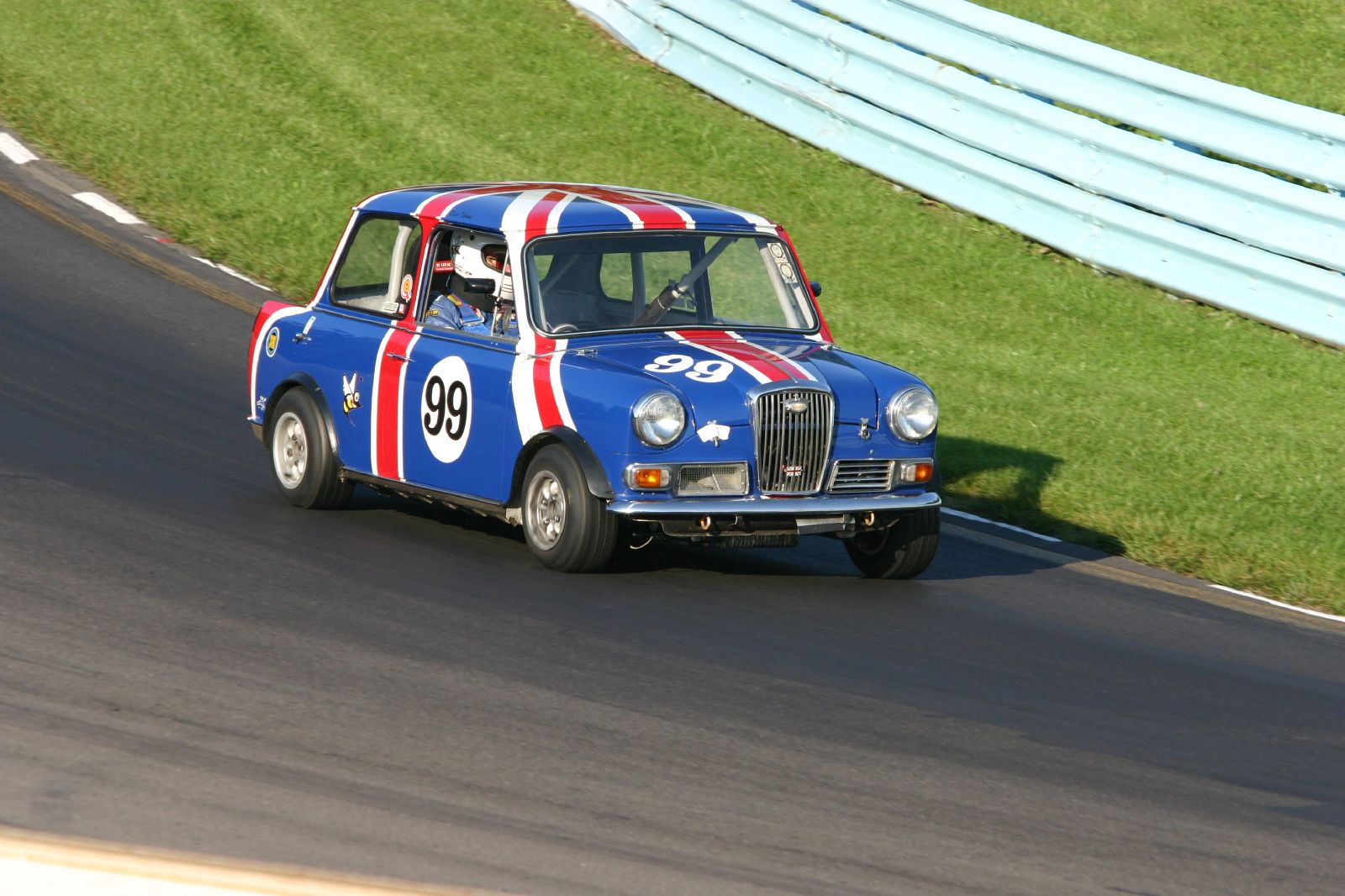 99 - 1965 Wolseley Hornet (1310cc) Richard Thomas Oldwick, NJ